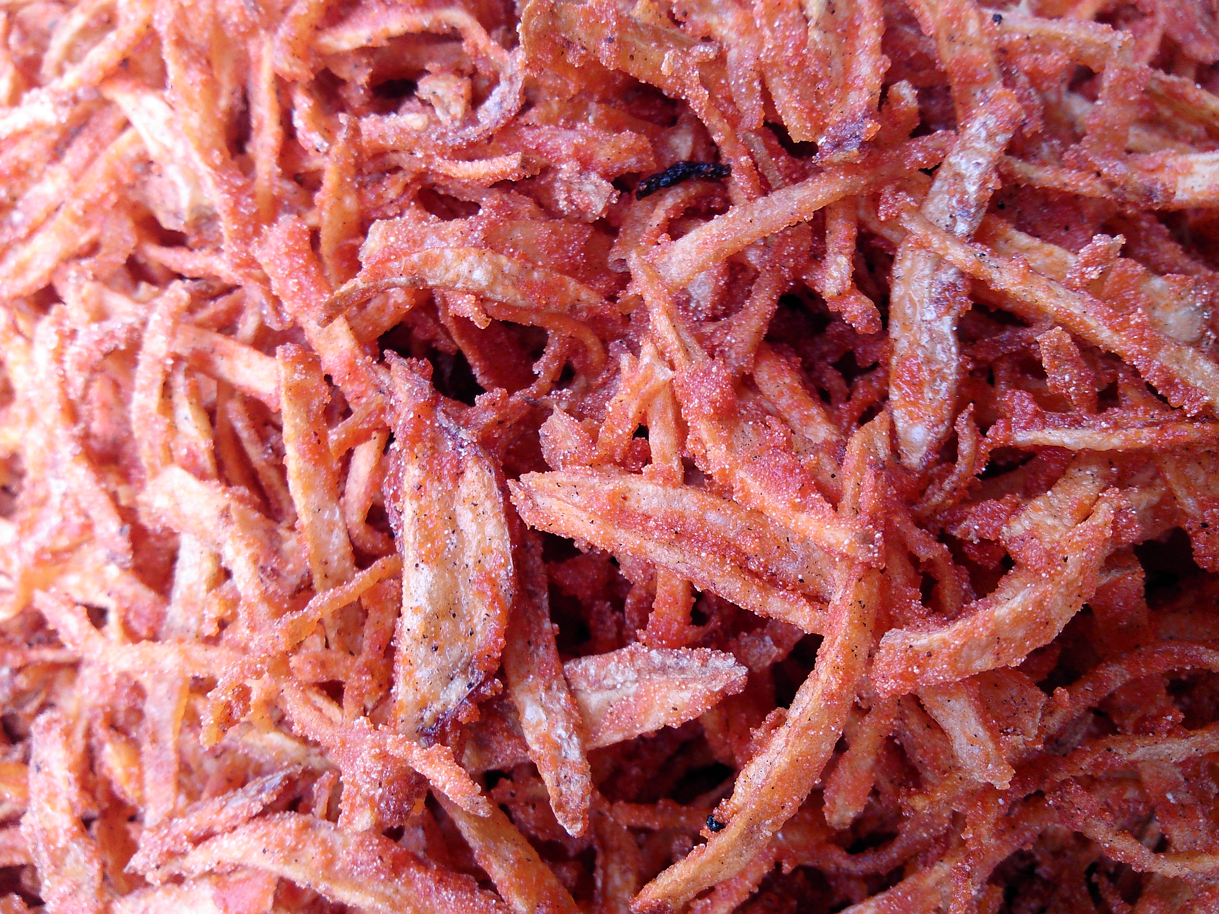 A view of Potato chips